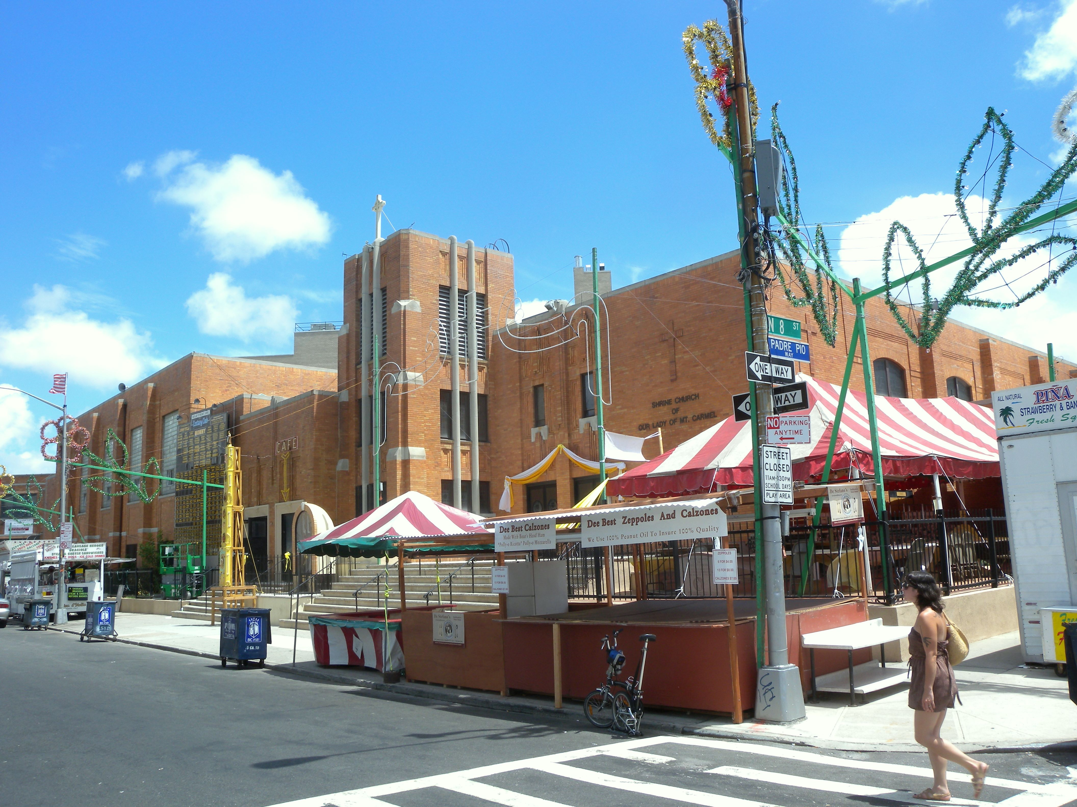 Looking east as street fair sets up in front of Our Lady of Mt Carmel RC Church on a sunny midday for the Giglio Feast.